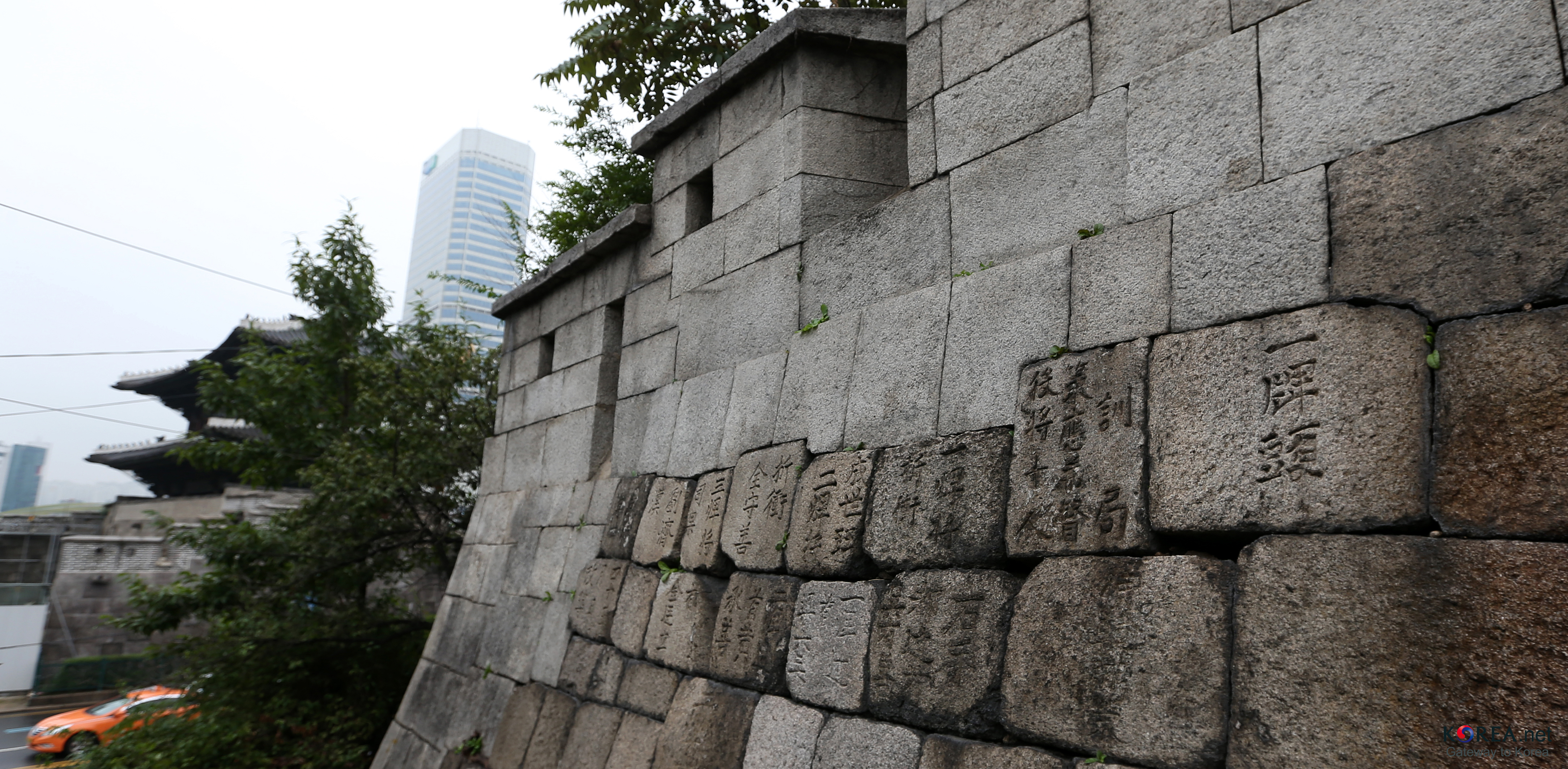 Seoul Fortress 2013.09.24. Fortress Park & Naksan Park, Seoul Ministry of Culture, Sports and Tourism Korean Culture and Information Service ( JEON HAN 서울 성곽 성곽공원 - 낙산공원, 서울 문화체육관광부 해외문화홍보원 코리아넷 전한